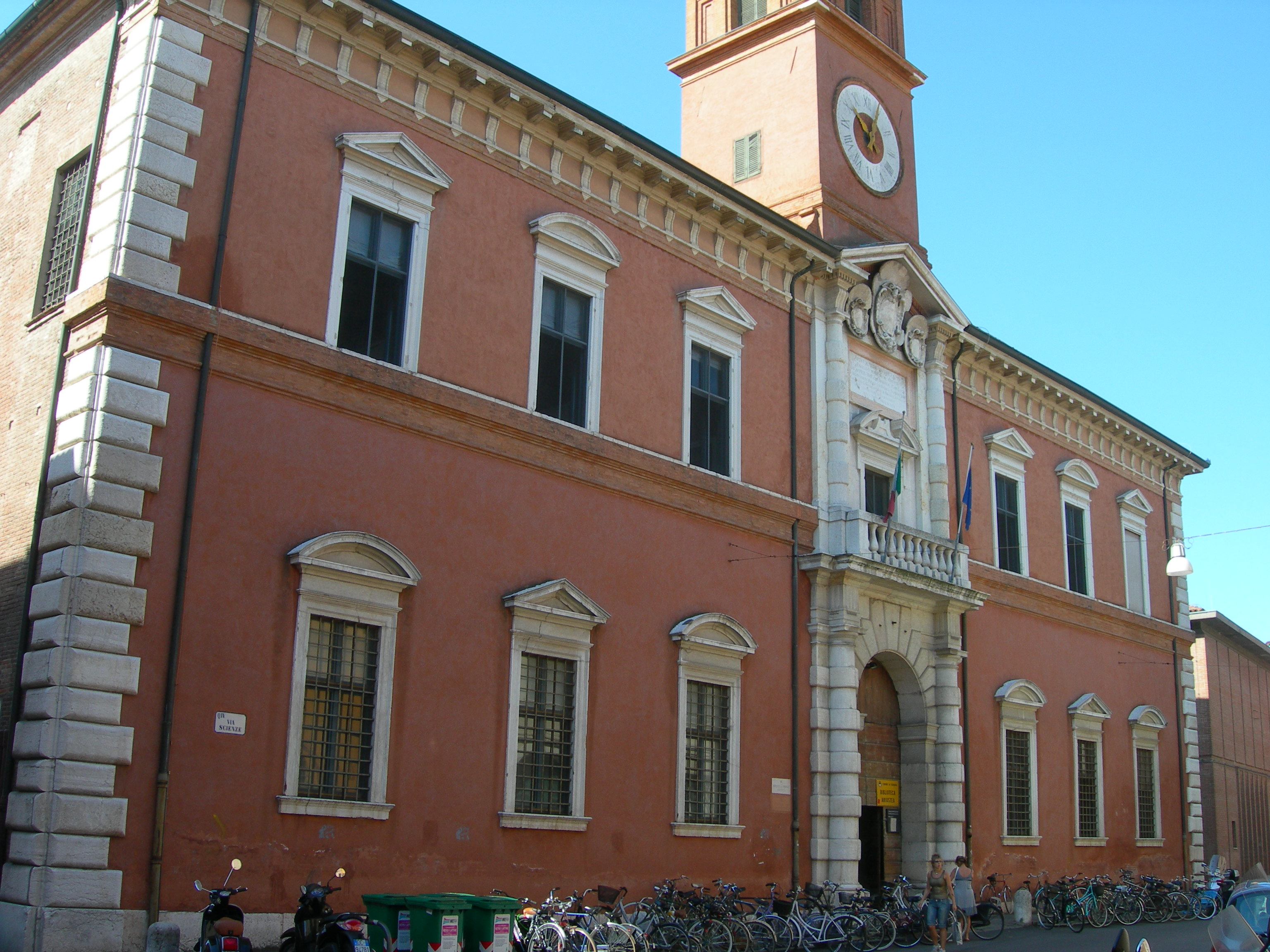 Palazzo Paradiso (Heaven Palace)